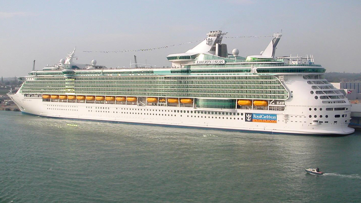 Liberty of the Seas in Southampton on 22nd April 2007.